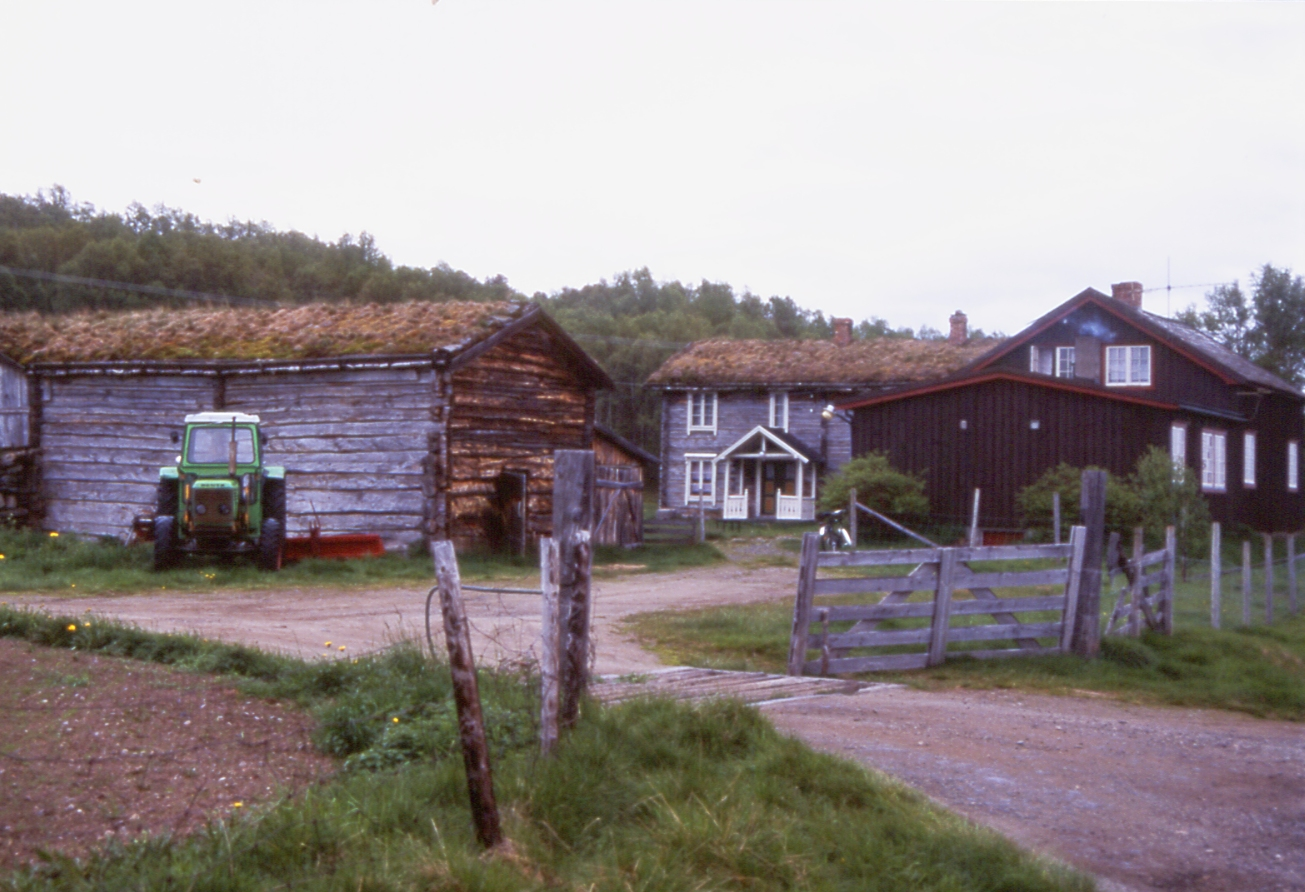 A farmhouse somewhere near the lake Femund, Norway.